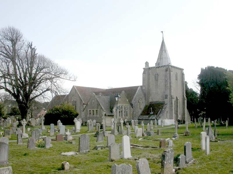 Milford on Sea, parish church The Church of All Saints, on Church Hill; Norman and Early English, listed by English Heritage. [1]